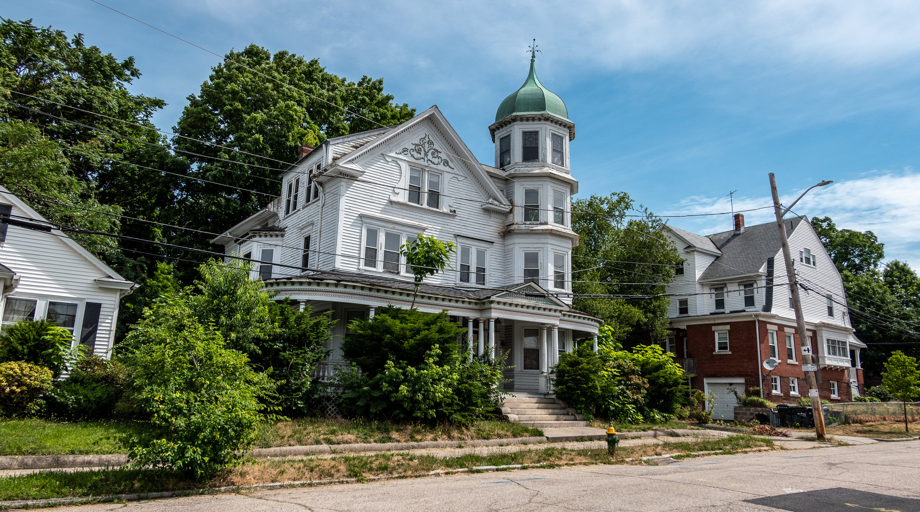 Houses on Higgins Avenue, Providence